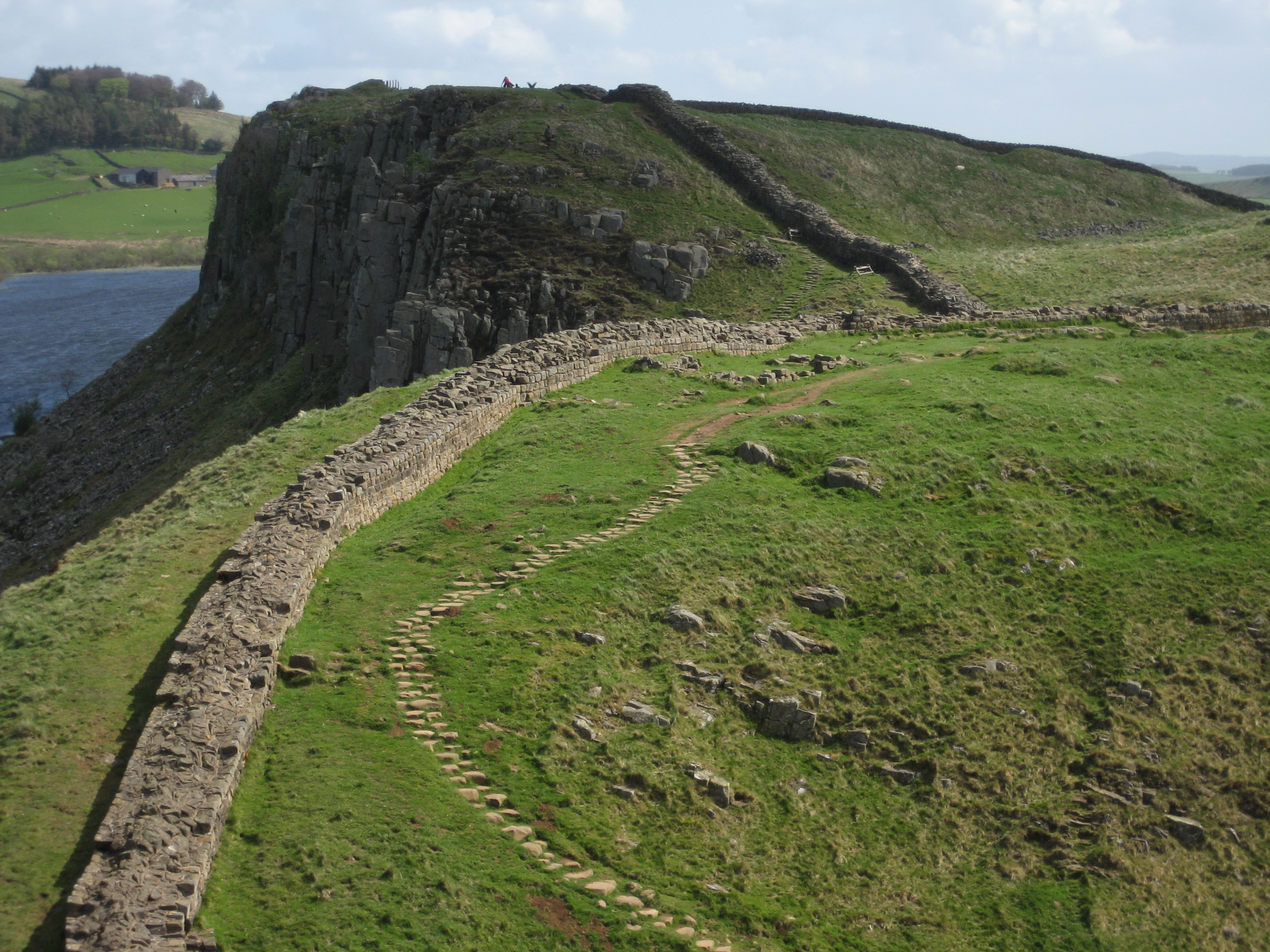 Hadrian's Wall and path, section near Crag Lough